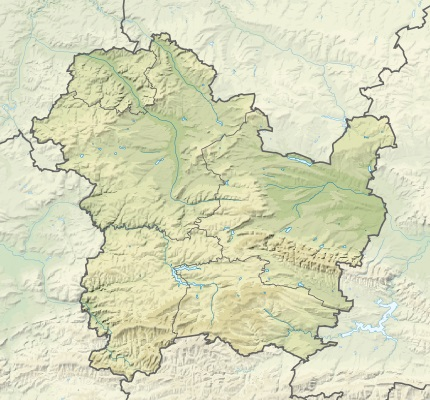 Relief location map Targovishte Province, Bulgaria. Geographic limits of the map